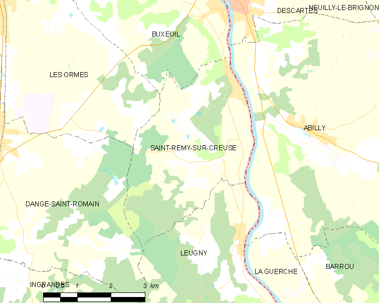 Map of French municipality Saint-Rémy-sur-Creuse